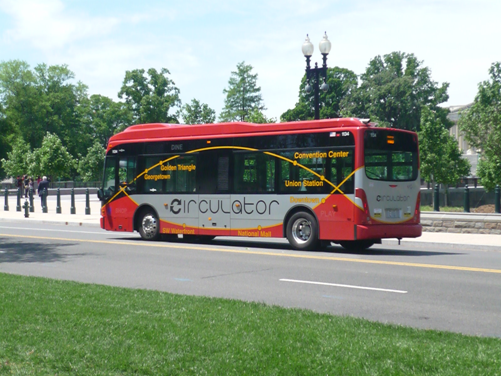 A DC Circulator Van Hool A300K making the rounds near the United States Capitol in Washington, D.C.